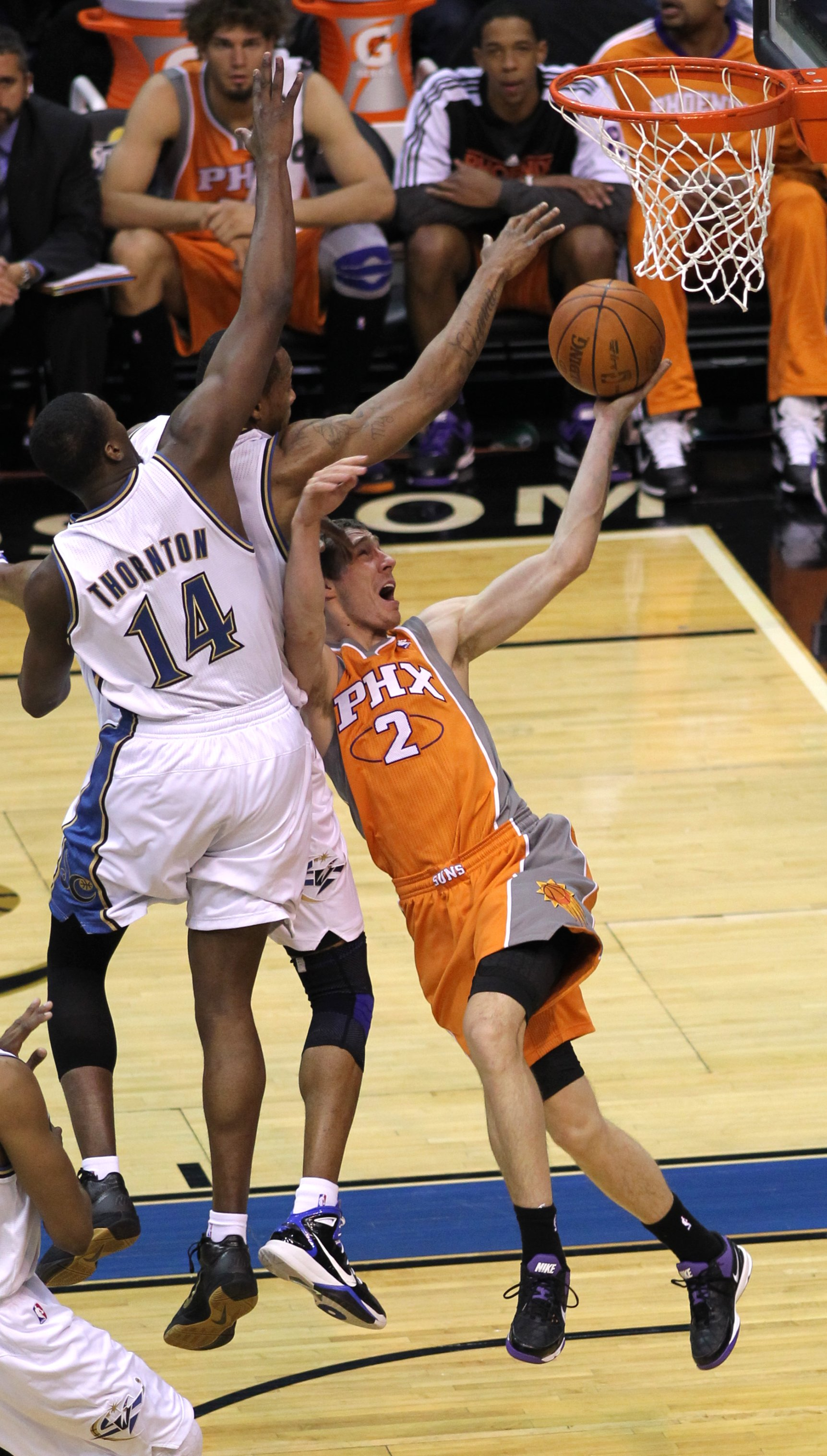 Washington Wizards v/s Phoenix Suns January 21, 2011